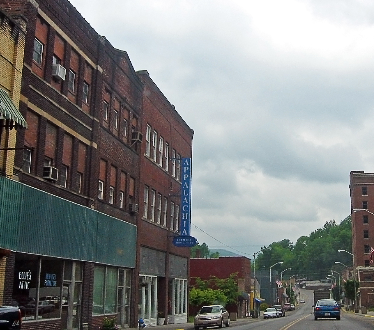 I'm going through photos from last year's trip to Appalachia, to supplement my writing up of the roadtrip tale on my blog. This is a rather poor snapshot, through the car window, of downtown Appalachia, a small town in southwestern Virginia. Since my roadtrip was to Appalachia, the region, I felt compelled to take the route to the Cumberland Gap that went through Appalachia, the town. I prefer small roads to large anyway, so I skipped the highway from Norton to Big Stone Gap, instead taking the smaller road to Appalachia, and then an even smaller road to Pennington Gap by way of Keokee. I'm still strangely pleased that there is a town called Appalachia. The region was very clearly a coal-mining area -- the only such area I saw during my trip to Appalachia (the region). Coal is important in the central and northern part of the Appalachians, and the town of Appalachia was about as far north as I got, so I saw very little coal, save in this part of Virginia. Here's a link to a map of Appalachia on MS Local Live. I hope it works.